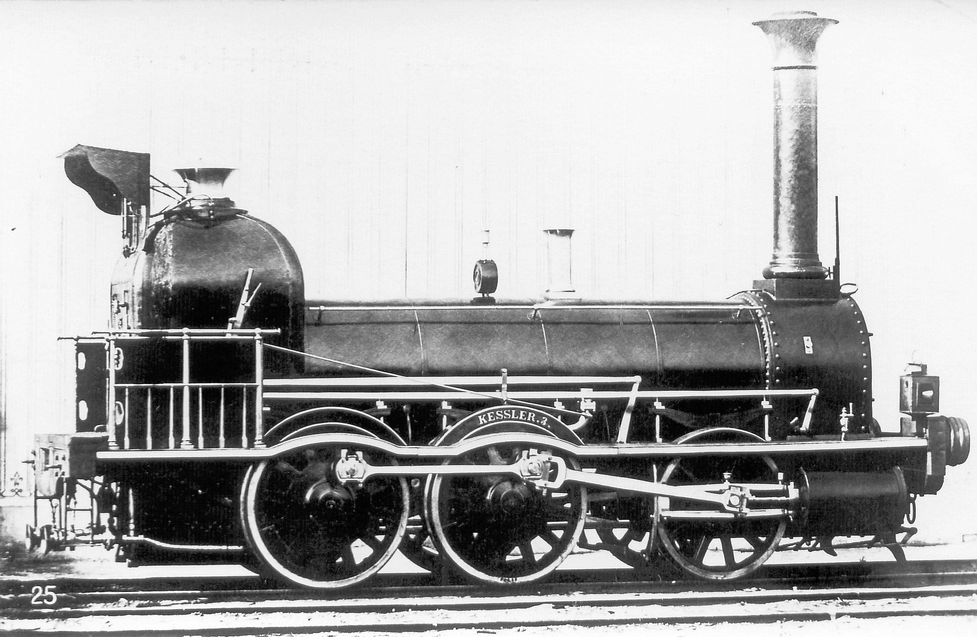 Locomotive # 3 of Main-Neckar-Bahn (Frankfurt-Heidelberg) by Maschinenfabrik Esslingen